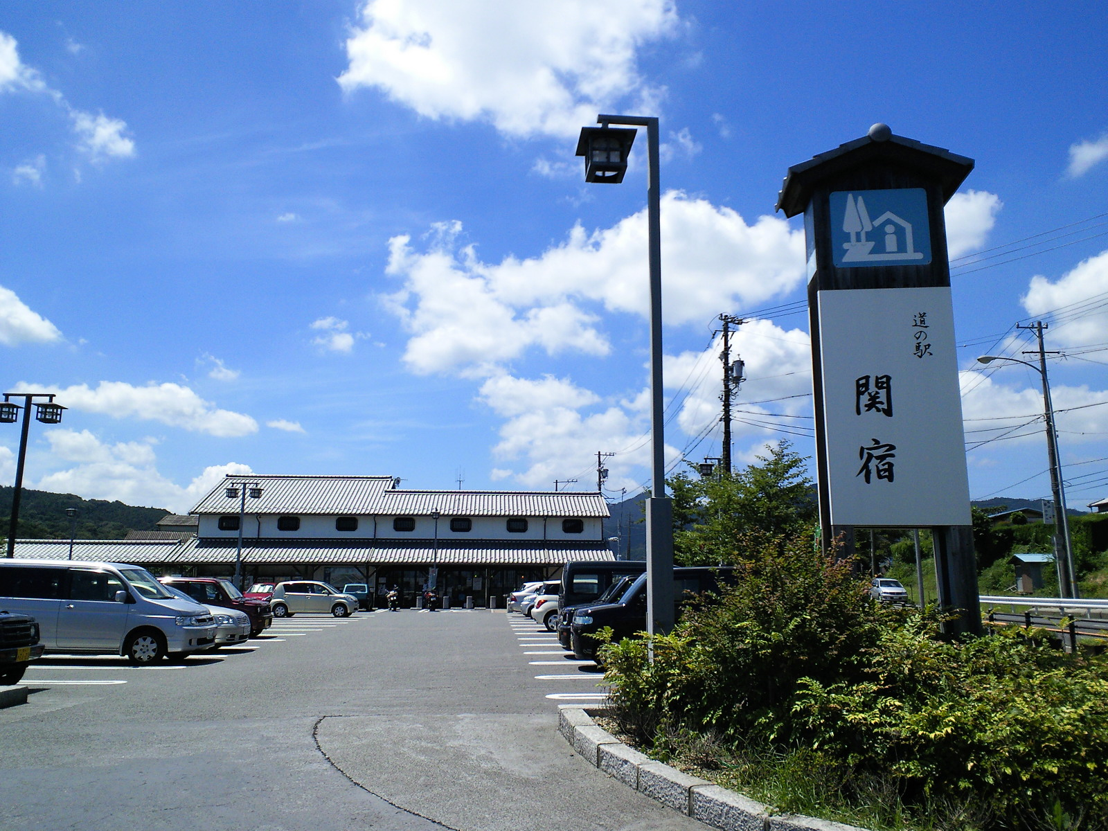 Sekijuku a Roadside Station, Kameyama, Mie